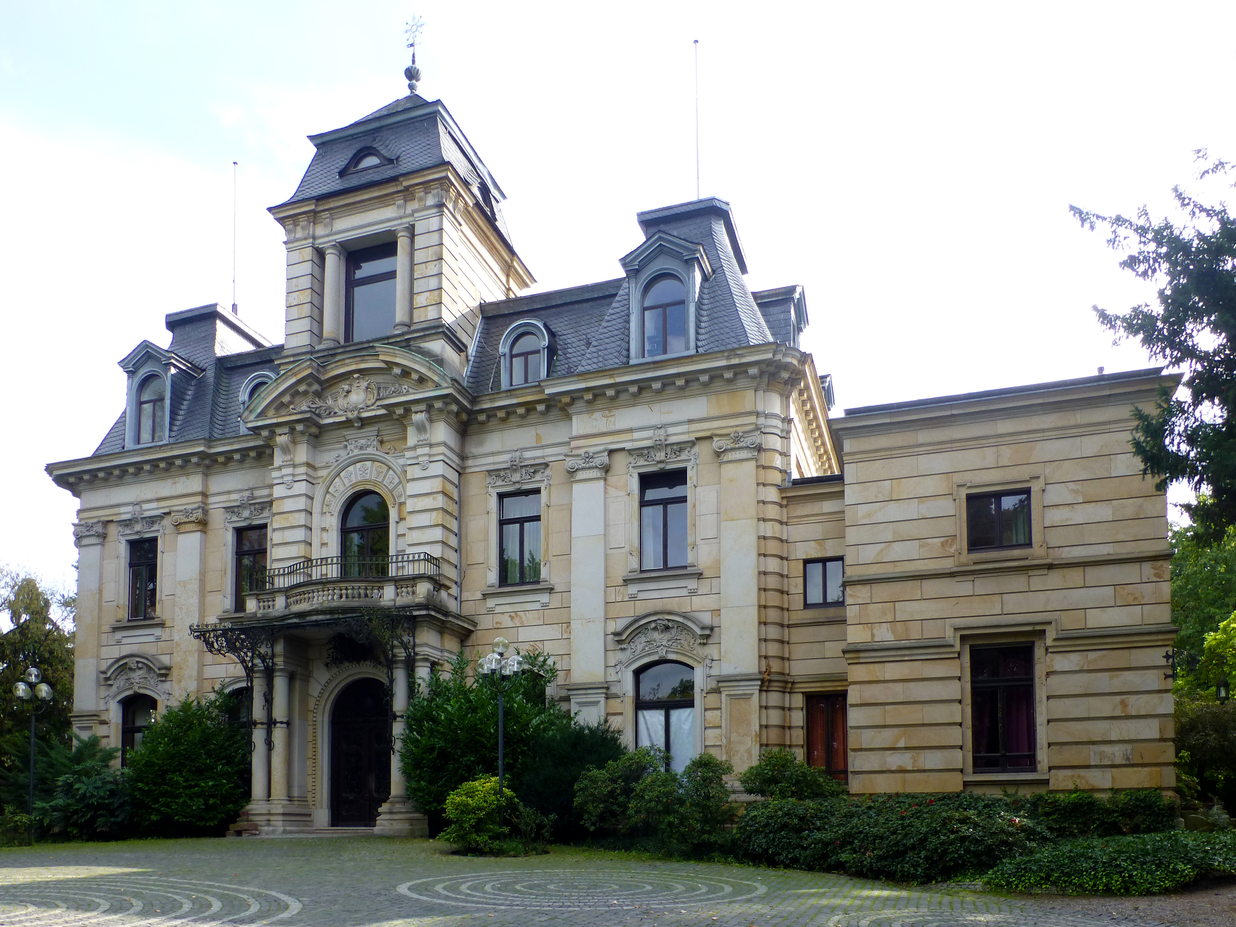 Stella Rheni, a villa in the old part of Bad Godesberg; Norther facade